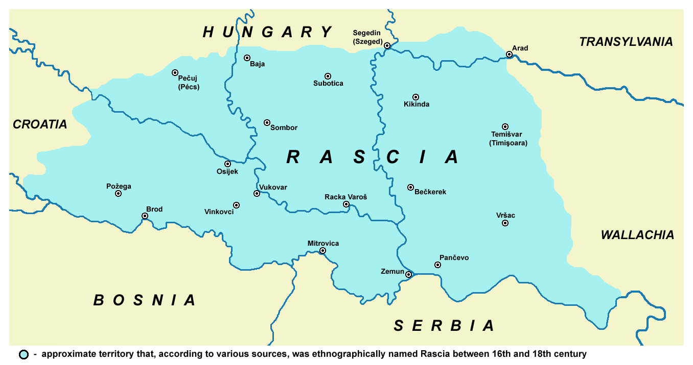 Approximate territory that, according to various sources, was ethnographically named Rascia (Raška, Racszag, Ráczország, Ratzenland, Rezenland) between 16th and 18th century.